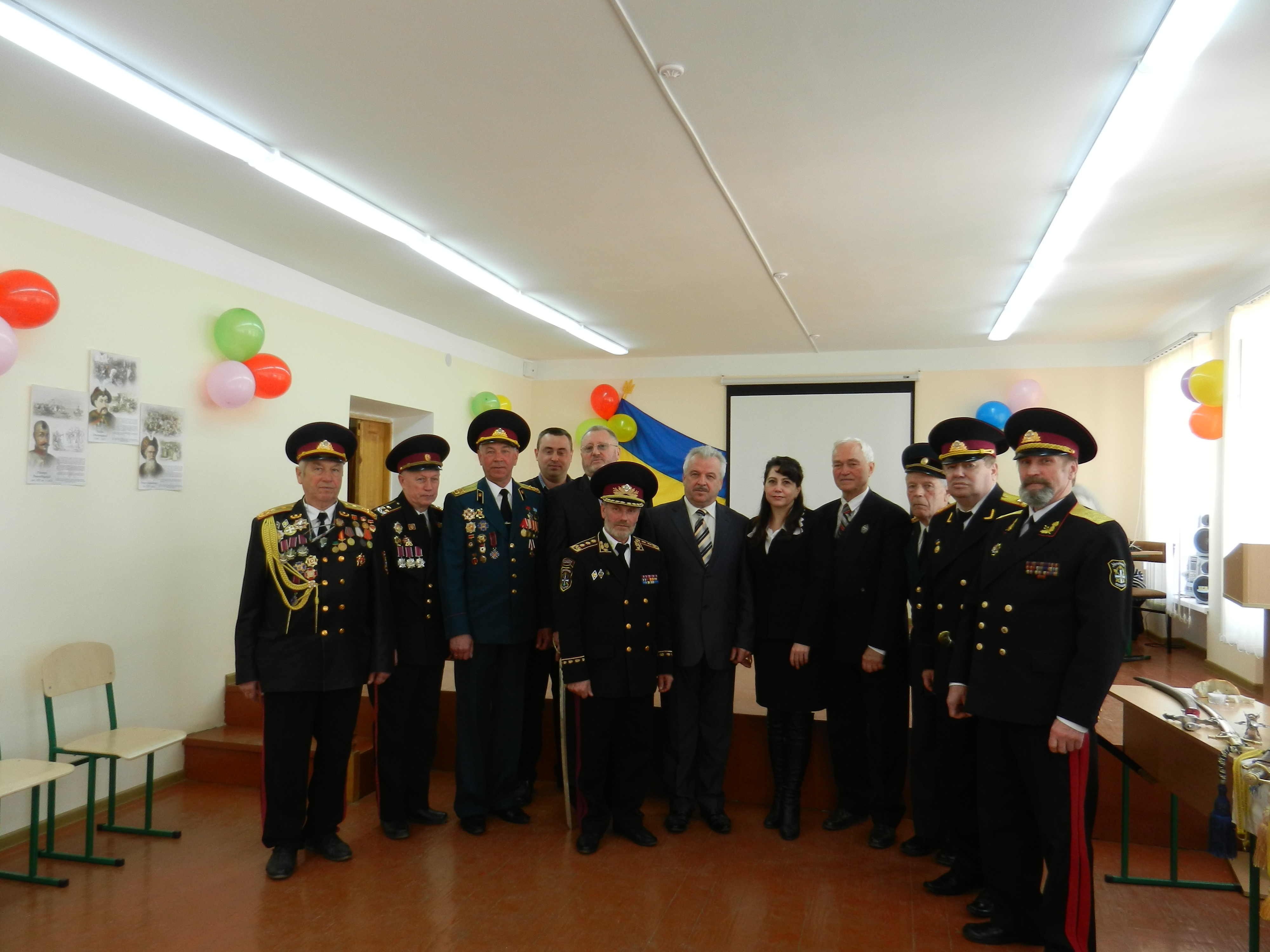 Старшина Буджацького козацтва. 2011 рік.